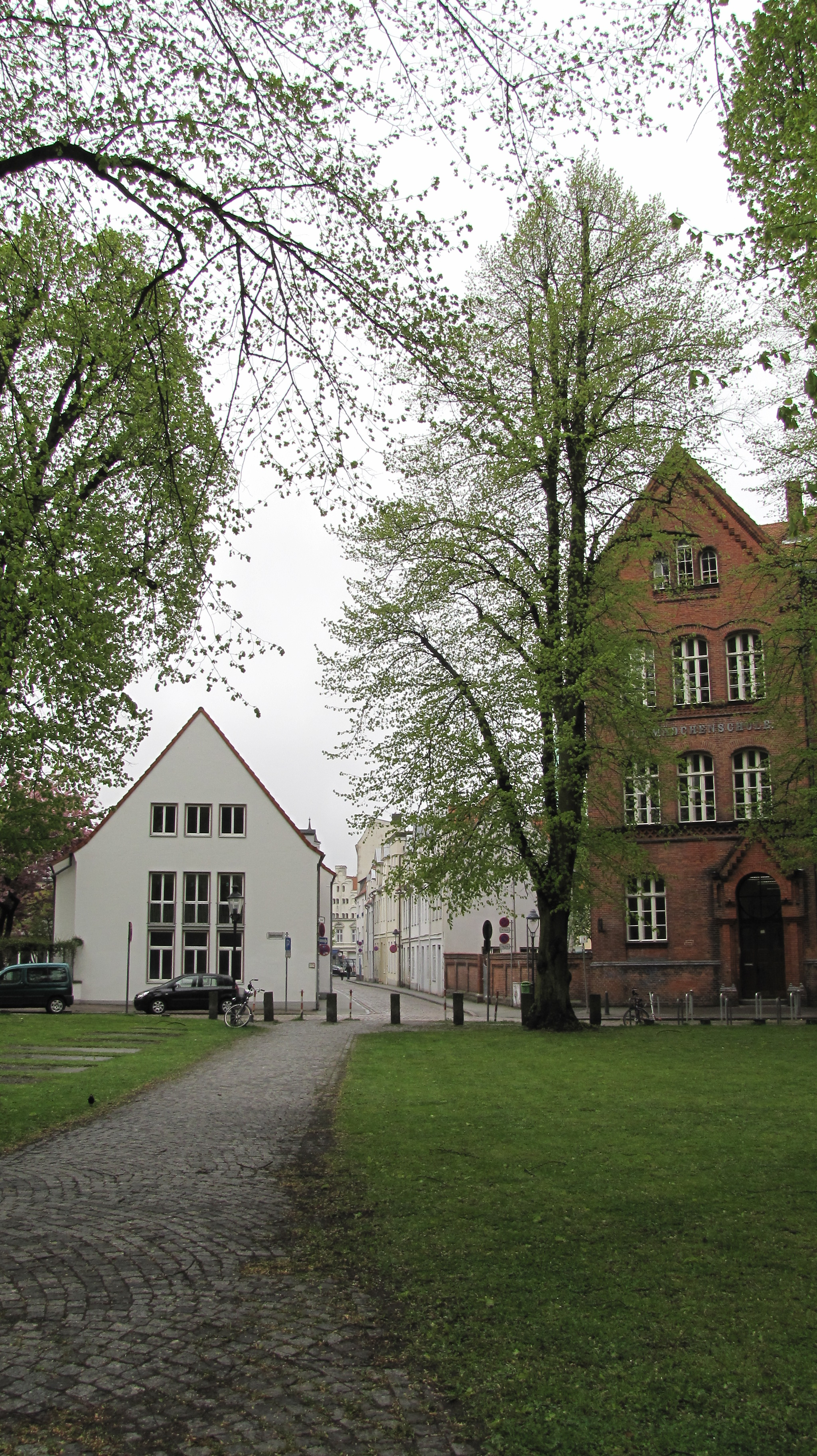 View from Domkirchhof to Fegefeuer (street) in Lübeck